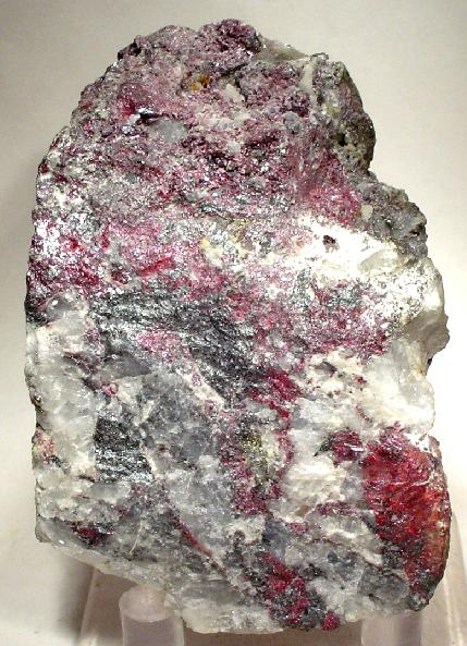 Pyrargyrite Locality: Comstock Lode, Comstock District, Storey County, Nevada, USA (Locality at ) A VERY RICH, old-time ore specimen of lustrous, red to oxidized ruby silver, pyrargyrite, in quartz matrix from the very famous Comstock Lode of Nevada. Ex Richard Hauck Collection. This is a neat old locality piece from the 1800s silver rush! Few such (admittedly ugly but historic) specimens come to light anymore! 6.5 x 4.6 x 4.3 cm